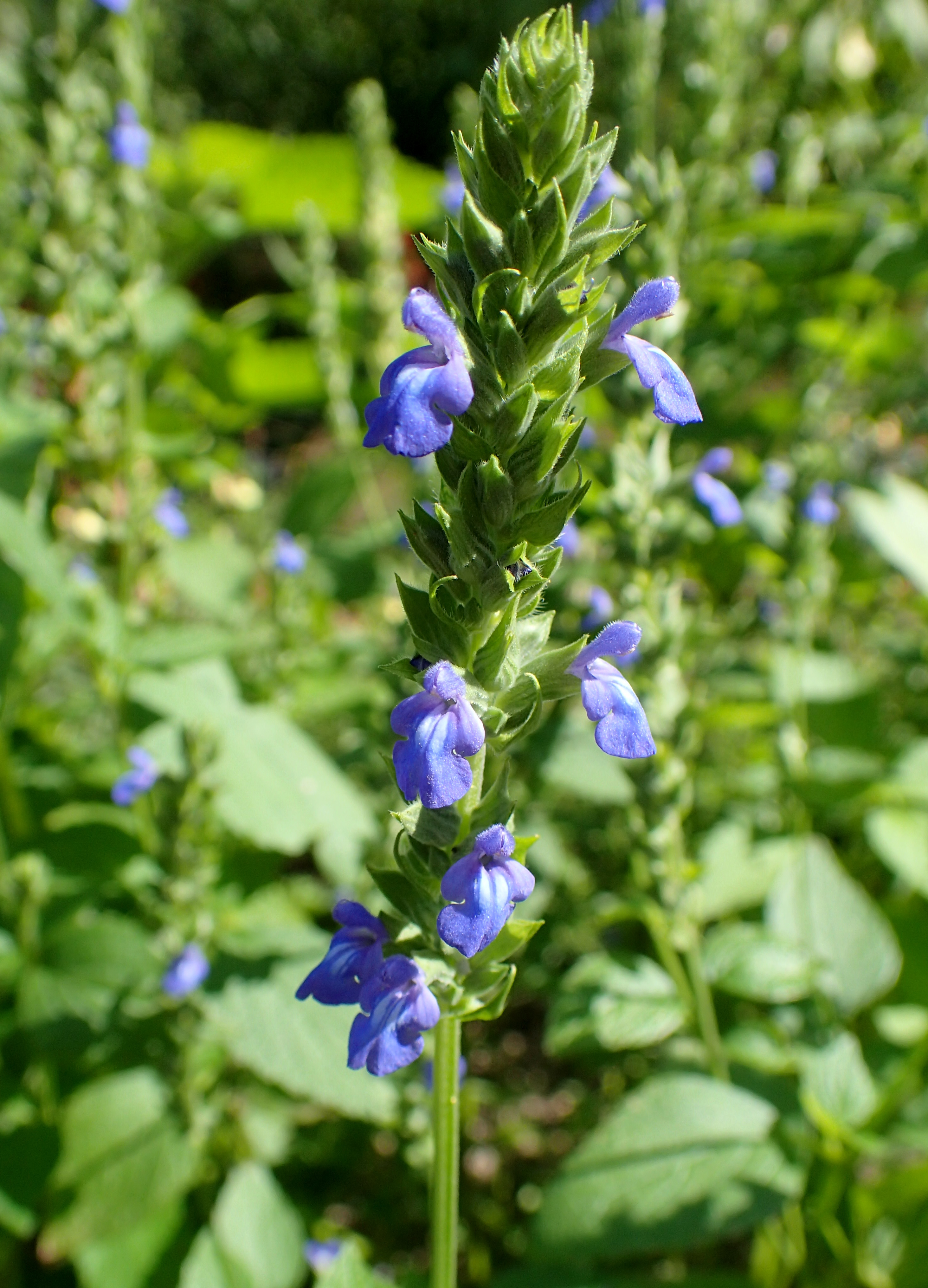 Salvia hispanica in Olbrich Botanical Gardens